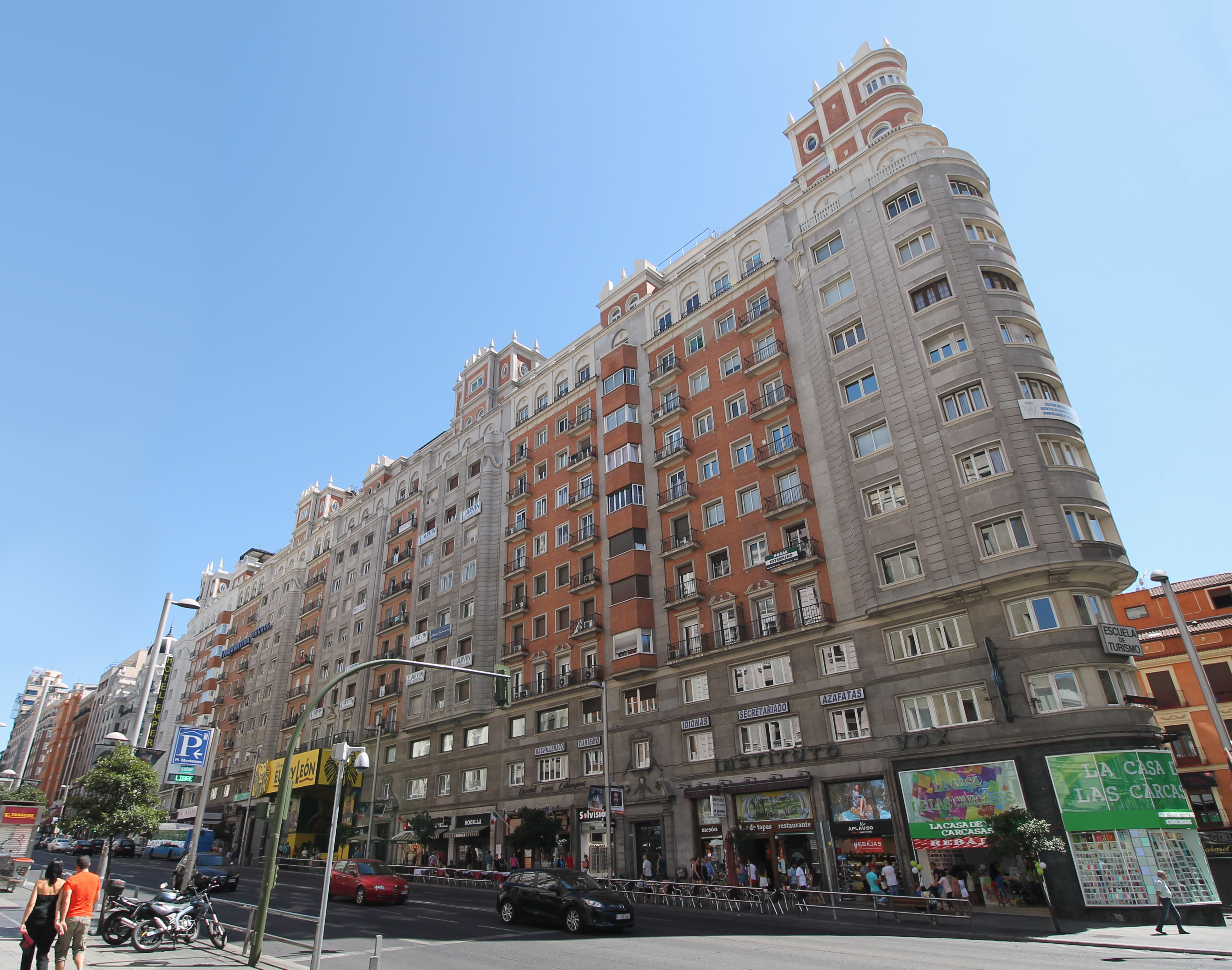 Façade of Los Sótanos Building in Madrid (Spain)..